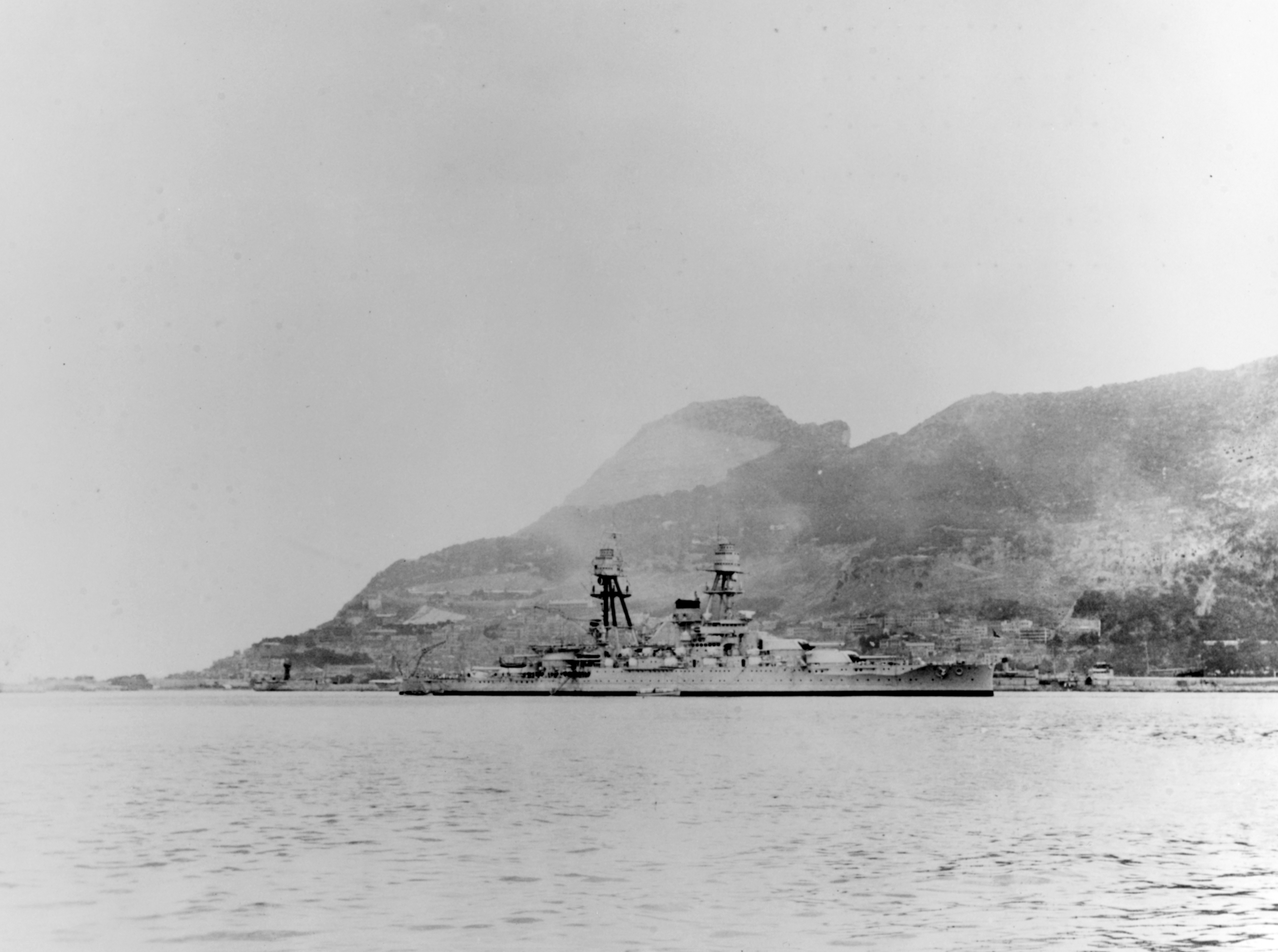 The U.S. Navy battleship USS Oklahoma (BB-37) at Gibraltar on 18 August 1936, during the Spanish Civil War.